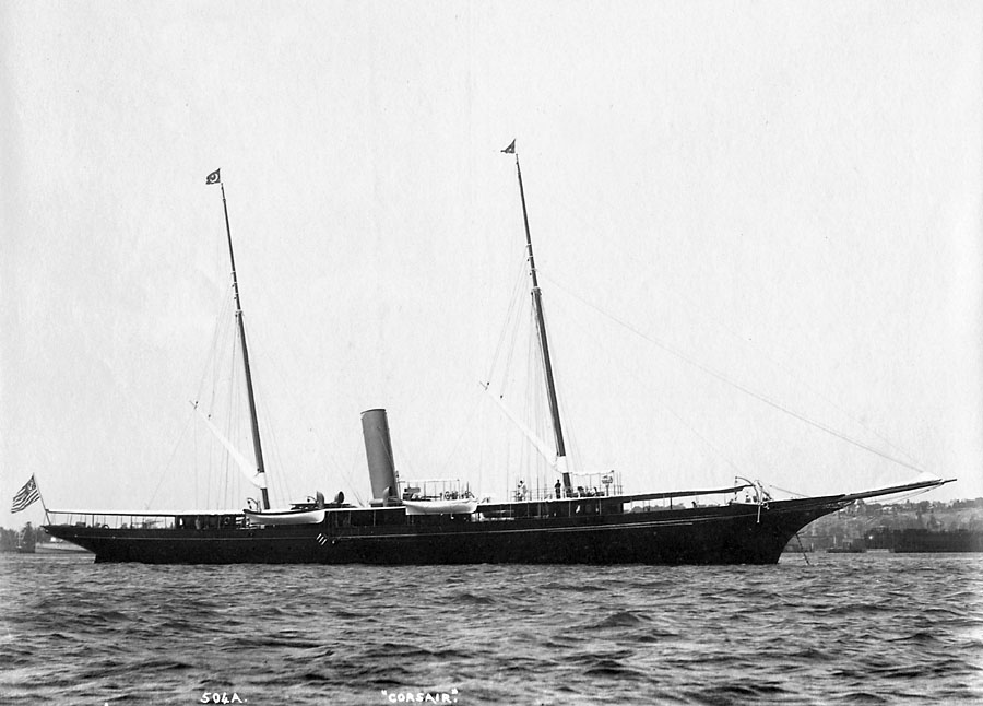 J. P. Morgan's yacht Corsair - later the USS Gloucester - as photographed about 1893.